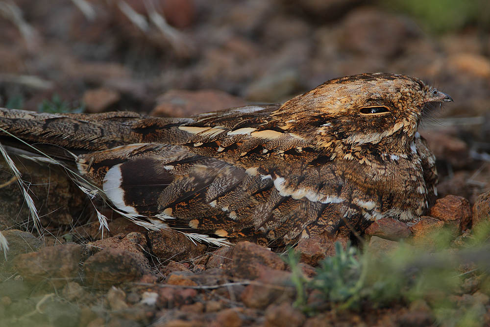 A Slender-tailed Nightjar near Lake Baringo, Kenya. A close-up view of a bird roosting on the ground.